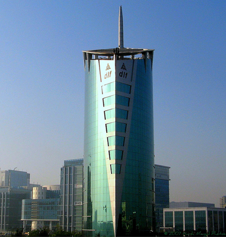 DLF Ship building in GurgaonDLF